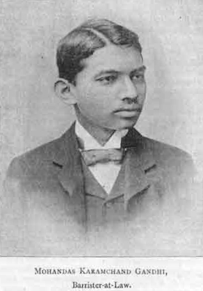 Copy of an image in 'The Vegetarian'. A London newspaper where Gandhi was referenced in an article in June 13, 1891. No indication was given of when it was taken, but probably when he was called to the bar a week earlier, age 21.